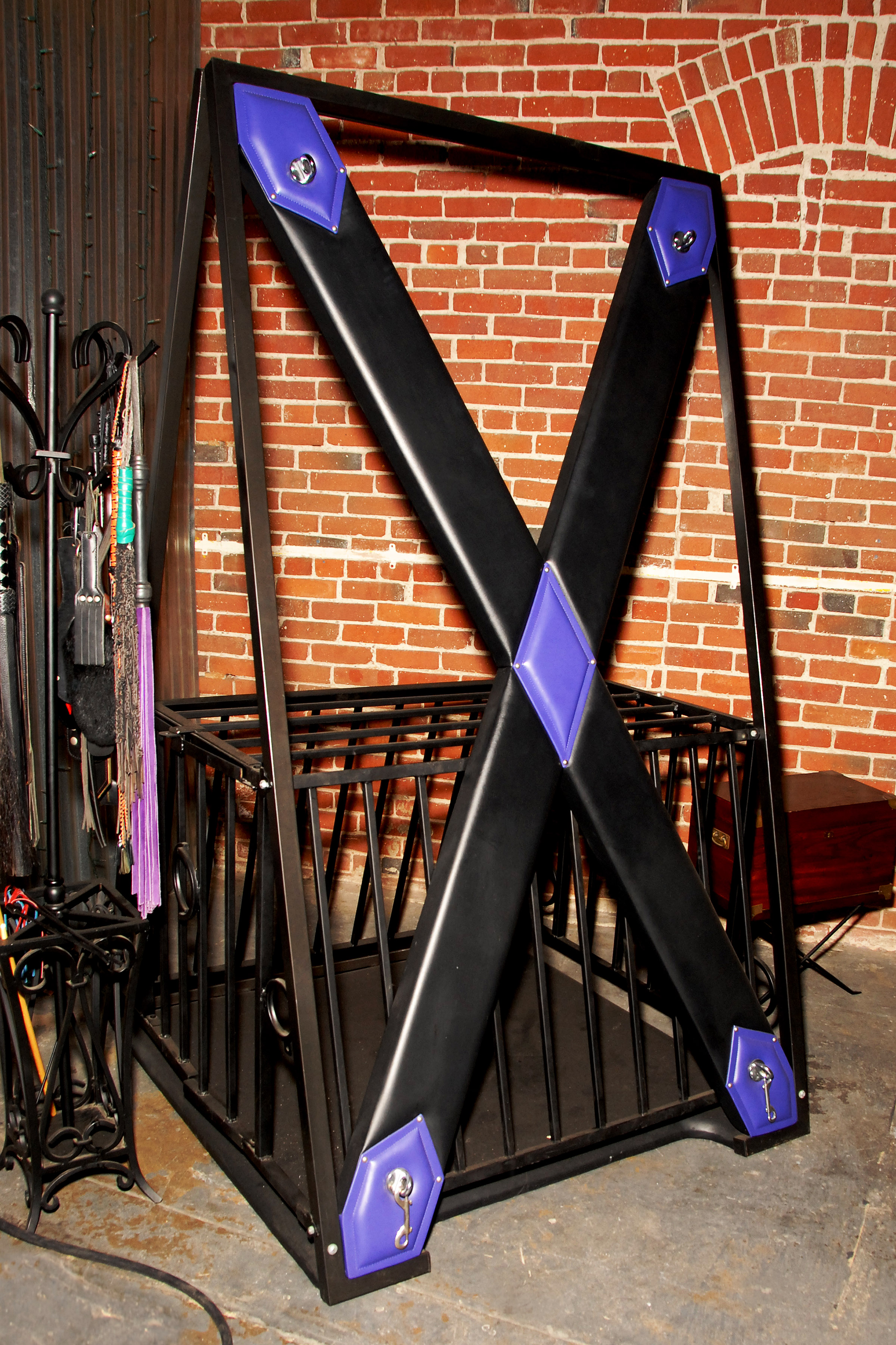 St. Andrews Cross - Photo by Glenn Francis of